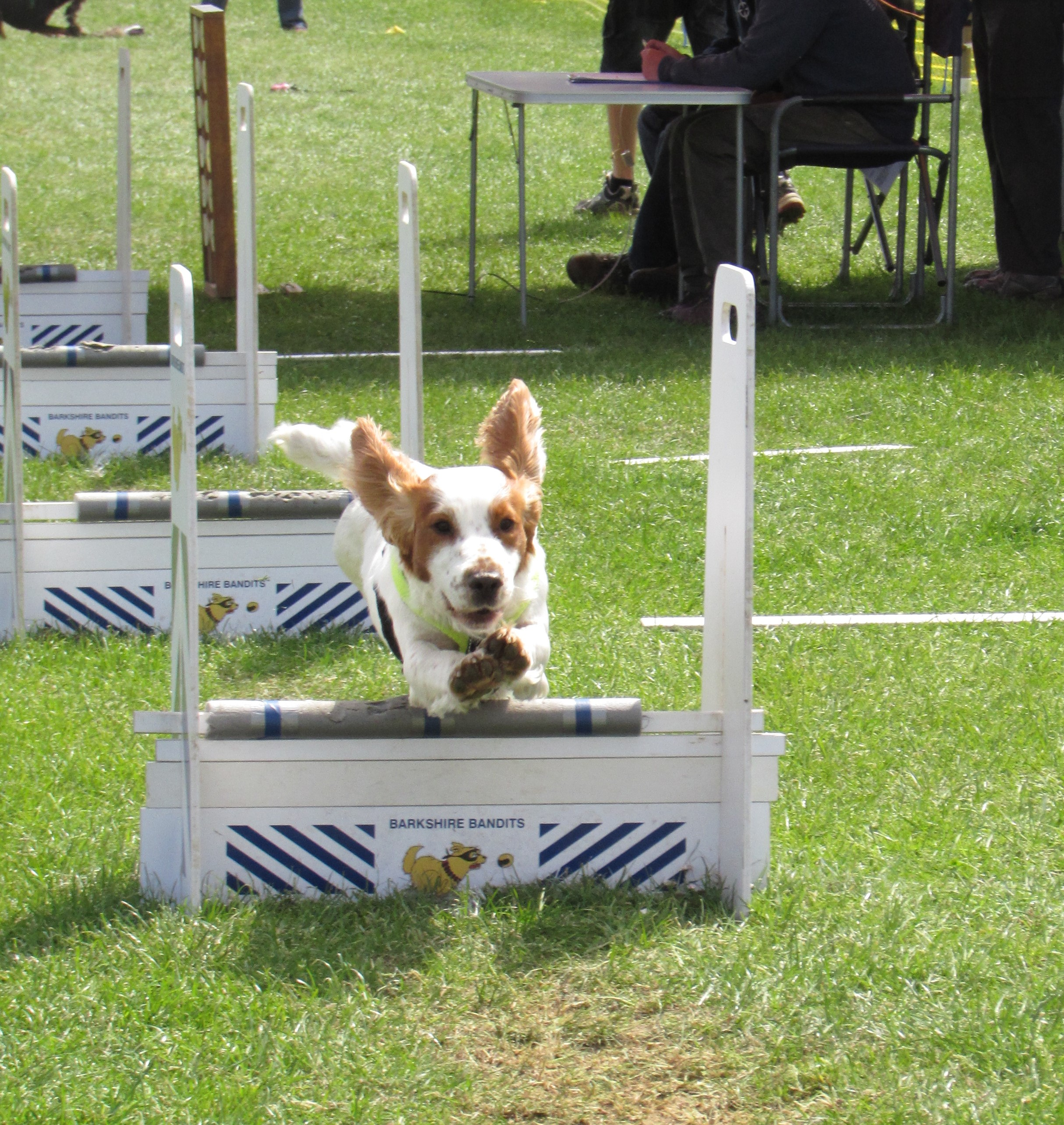 Dog jumps over hurdles towards box at a Competition.